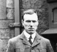 Group photograph of Geological Survey staff in Edinburgh. Back row (left to right) J.E. Richey, G.W. Lee, Carruthers, C.H. Dinham, C.B. Crampton, E.B. Bailey. Front row (left to right) G.V. Wilson, Clough, J.S. Flett, L.W. Hinxman, M. Macgregor.